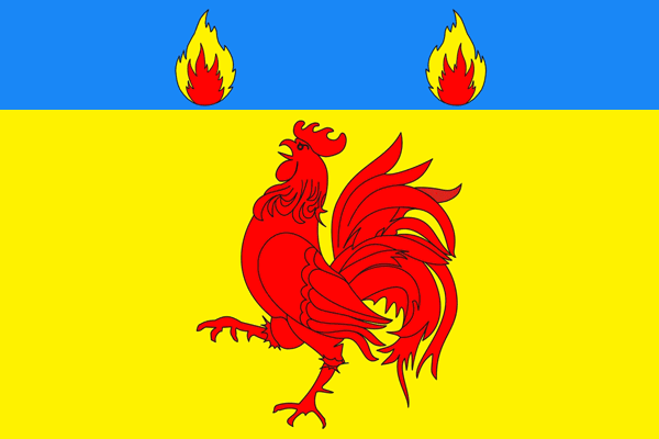 Flag of Morevskoe rural settlement, Krasnodar Territory, Russia